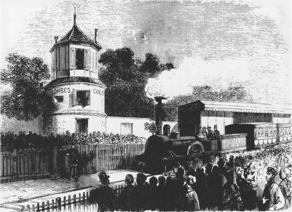 Inauguration of the railways station of Colombes (Seine, France) on april 27th 1851. With the observatory-tower of marquis de Courtanvaux.